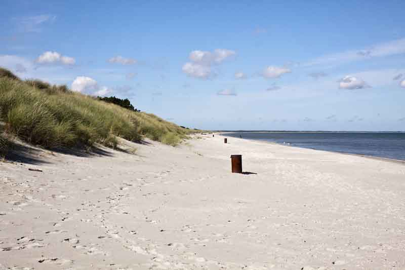 Bratten Strand, beach in the northern part of Denmark